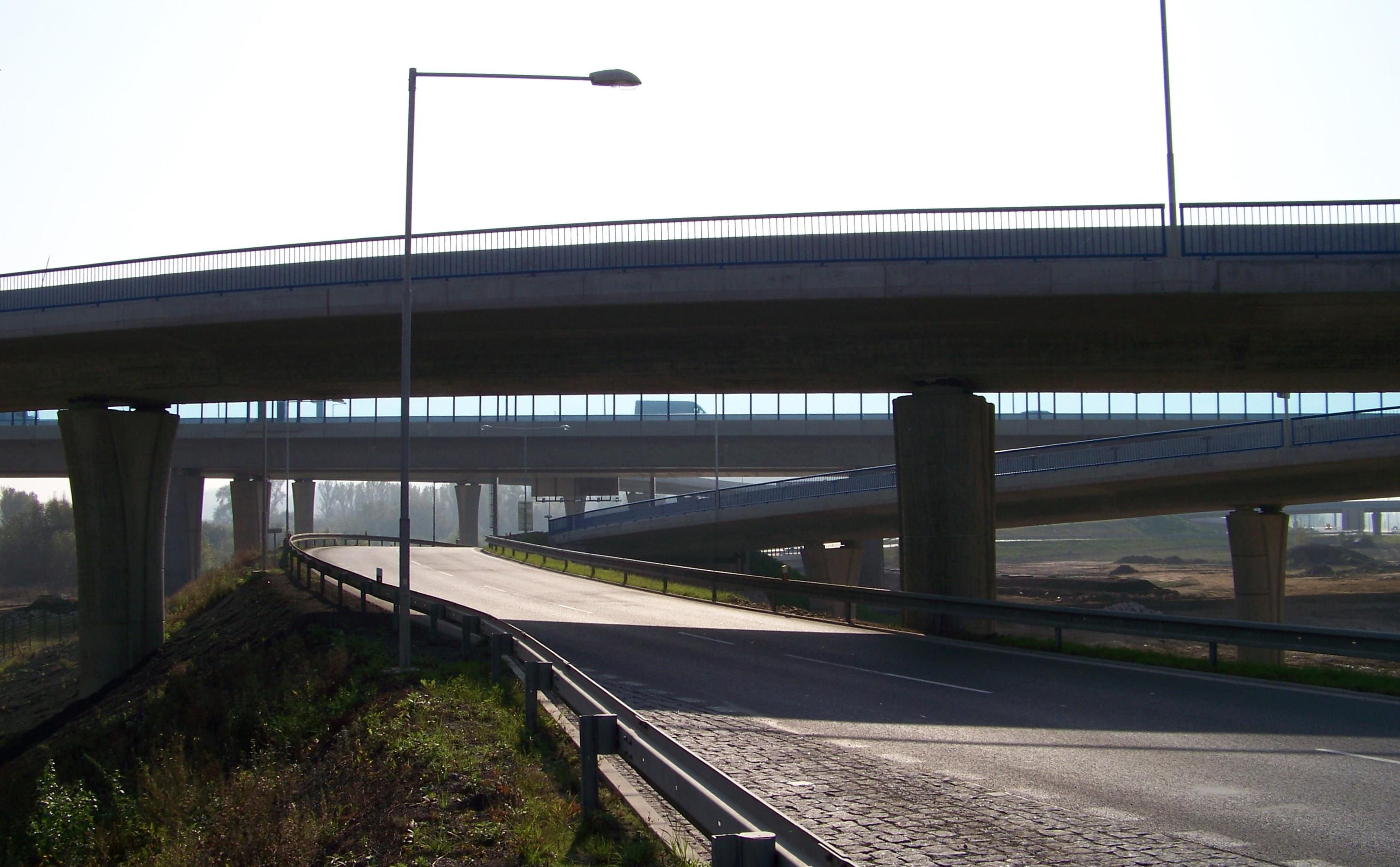 Prague-Lahovice and Zbraslav, the Czech Republic, Lahovice Interchange of R1 and R4 expressways.